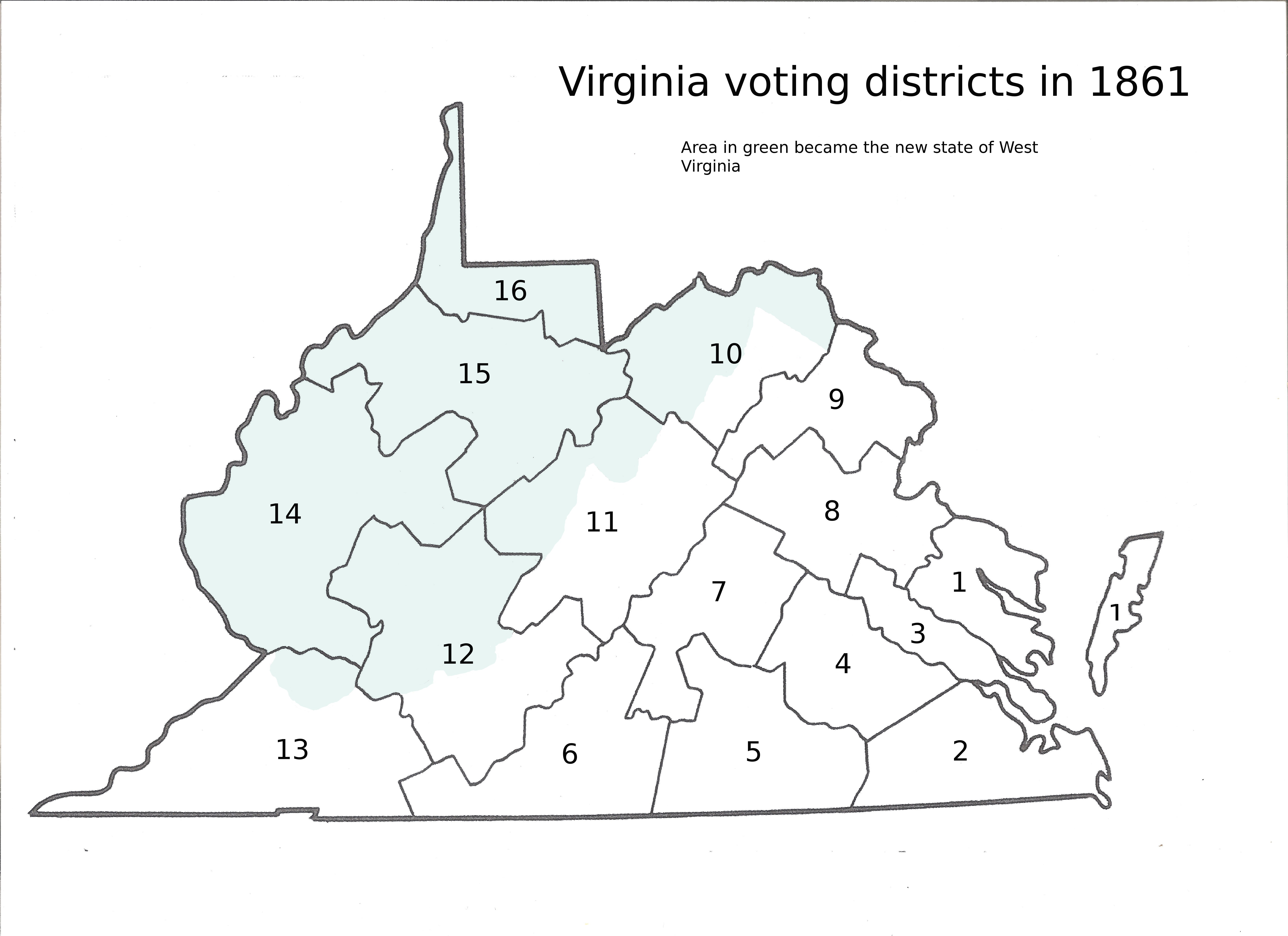 This is a map of the 16 voting districts in Virginia in 1861 prior to the loss of the counties that became West Virginia